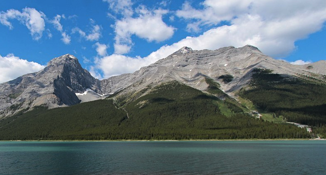 Mount Nestor and Old Goat Mountain from Spray Lakes, Alberta